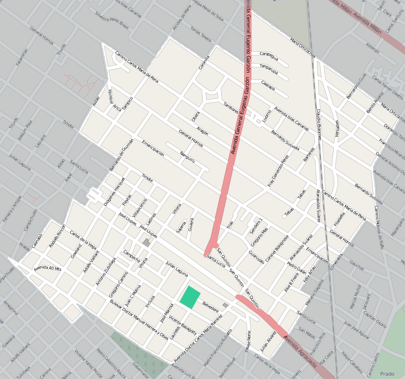 Street map of Belvedere, Montevideo, exported from OpenStreetMap. I added shading to delimit the barrio. This map may be incomplete, and may contain errors. Don't rely solely on it for navigation.